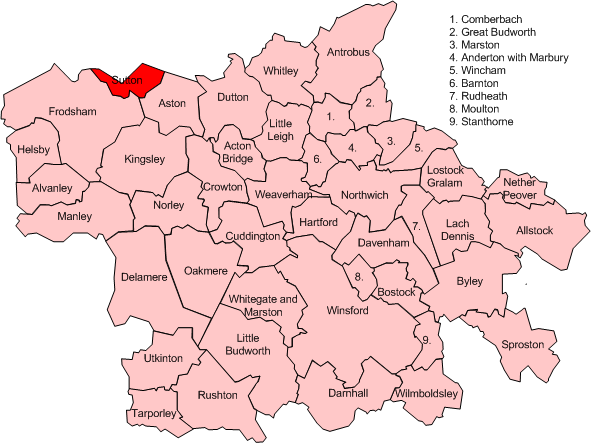 Map of civil parish of Sutton, Vale Royal, Cheshire